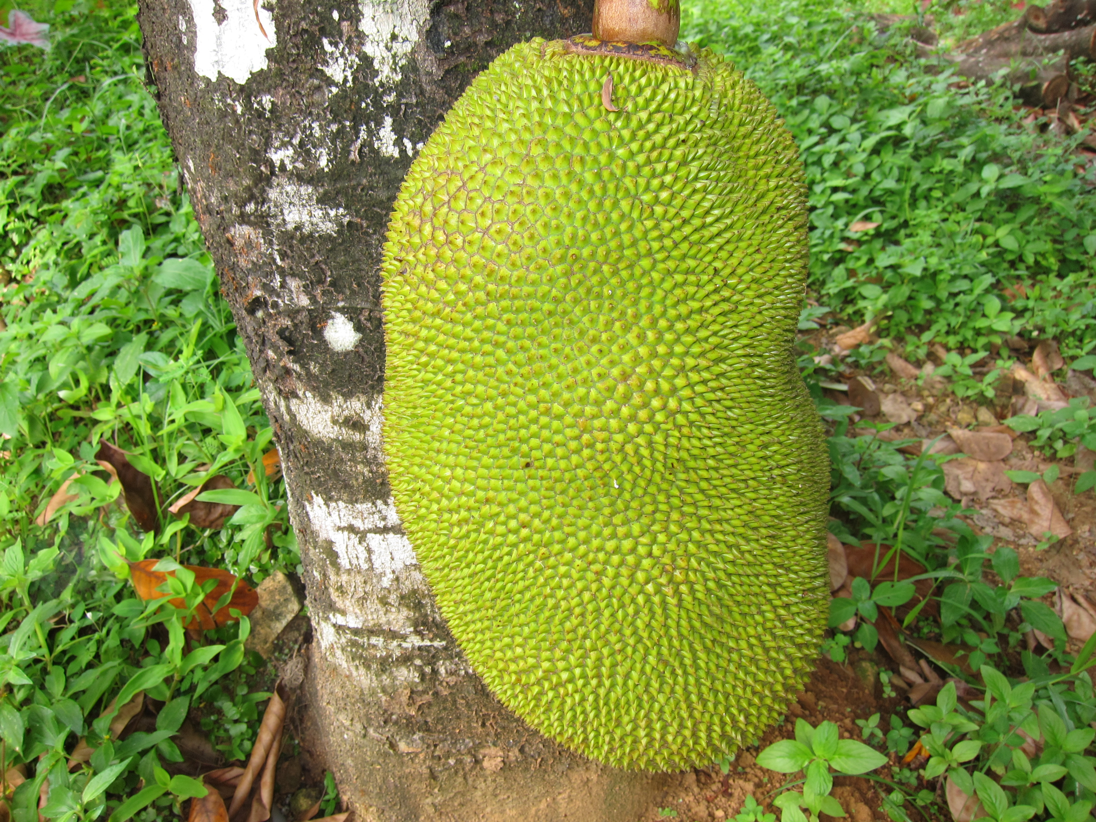 Jackfruit